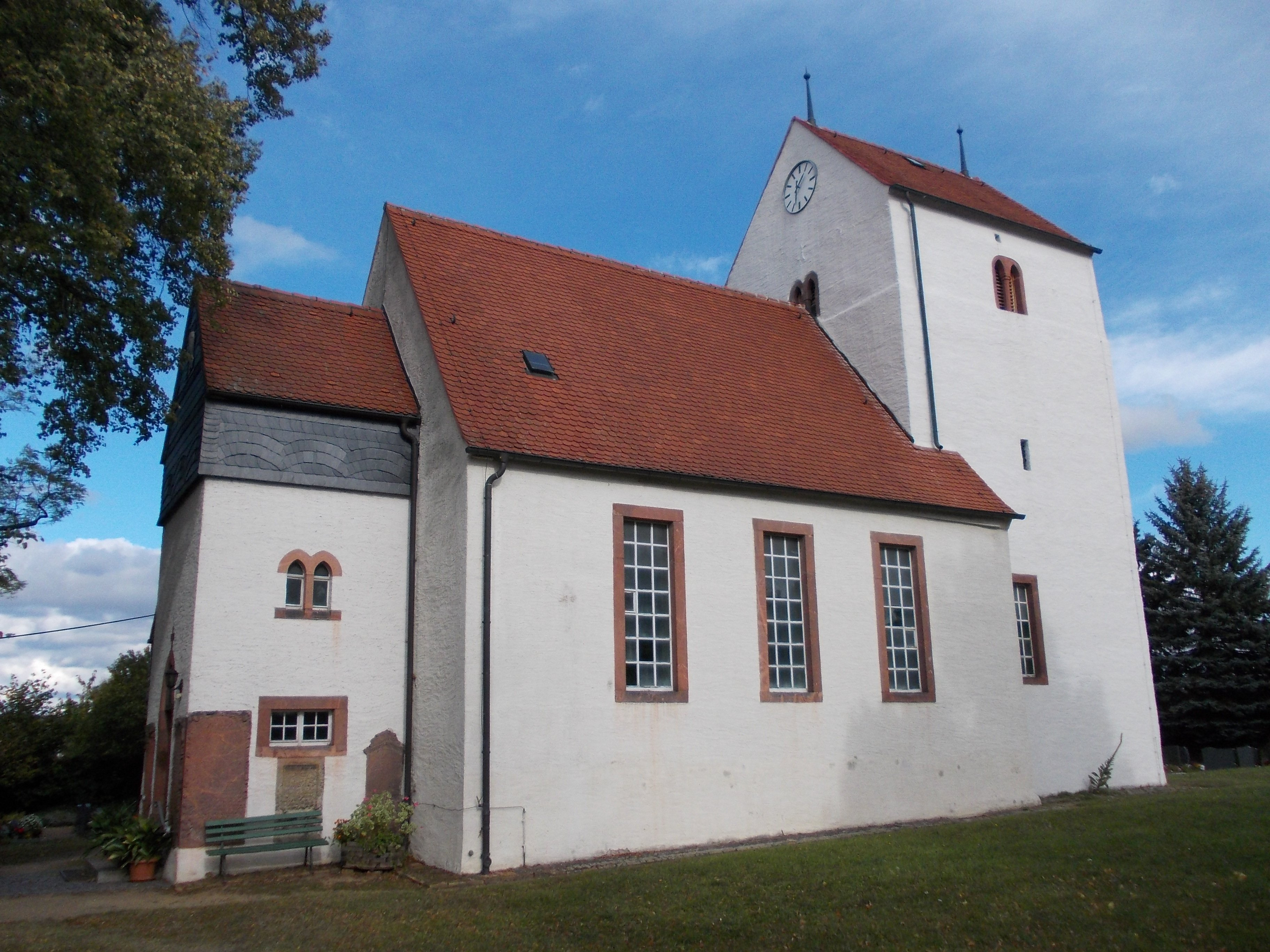 Glasten church (Bad Lausick, Leipzig district, Saxony)